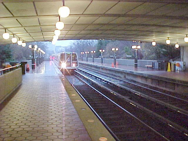 A train arrives at Arlington Cemetery station